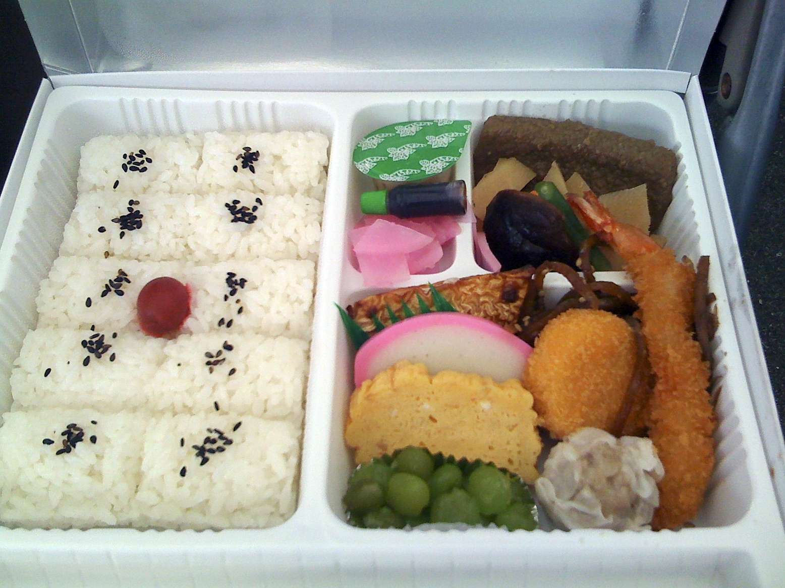 Tōkaiken's makunouchi bento. See also the package.